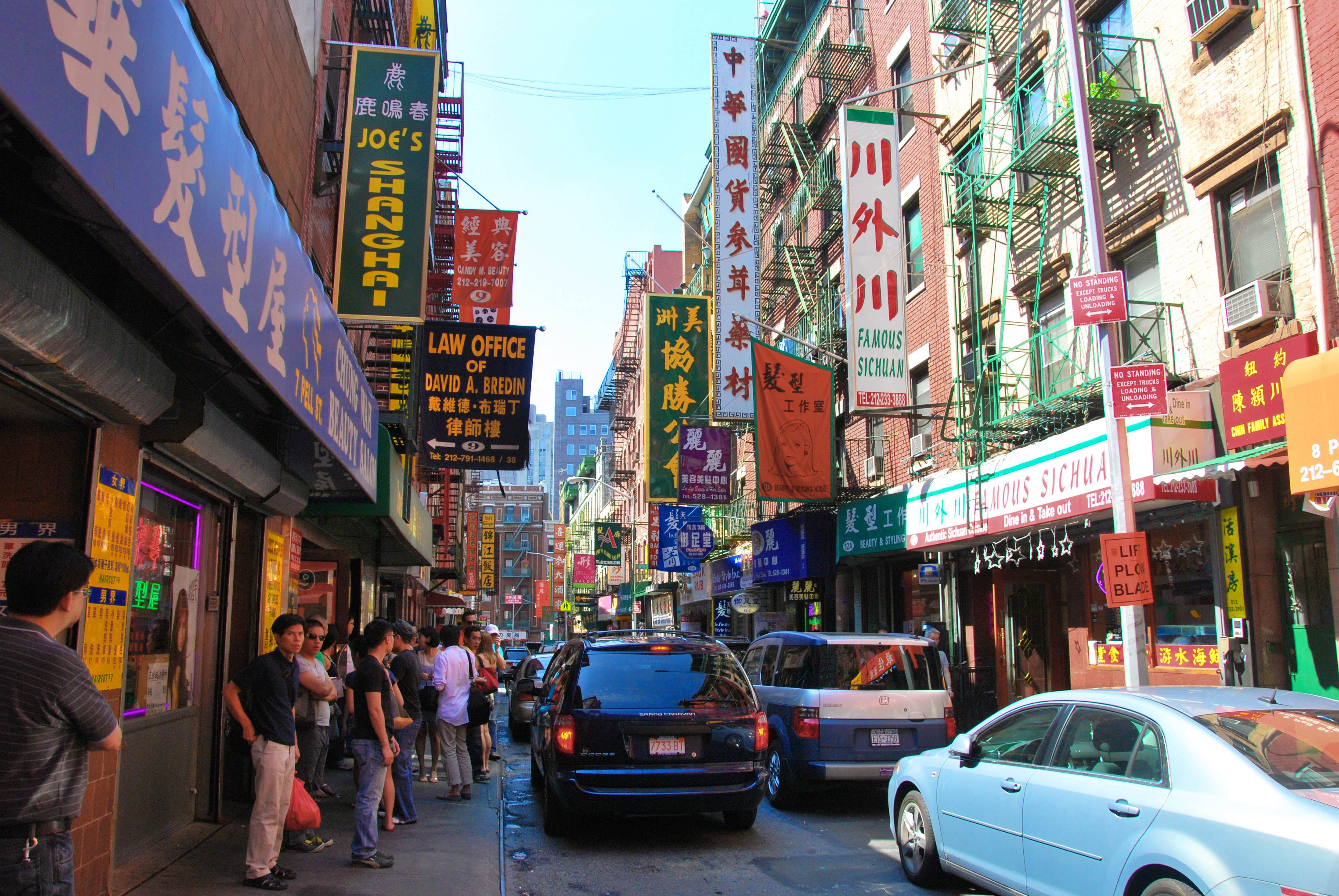 Chinatown, Manhattan, New York City 2009 on Pell Street, looking west towards Doyers and Mott Streets.